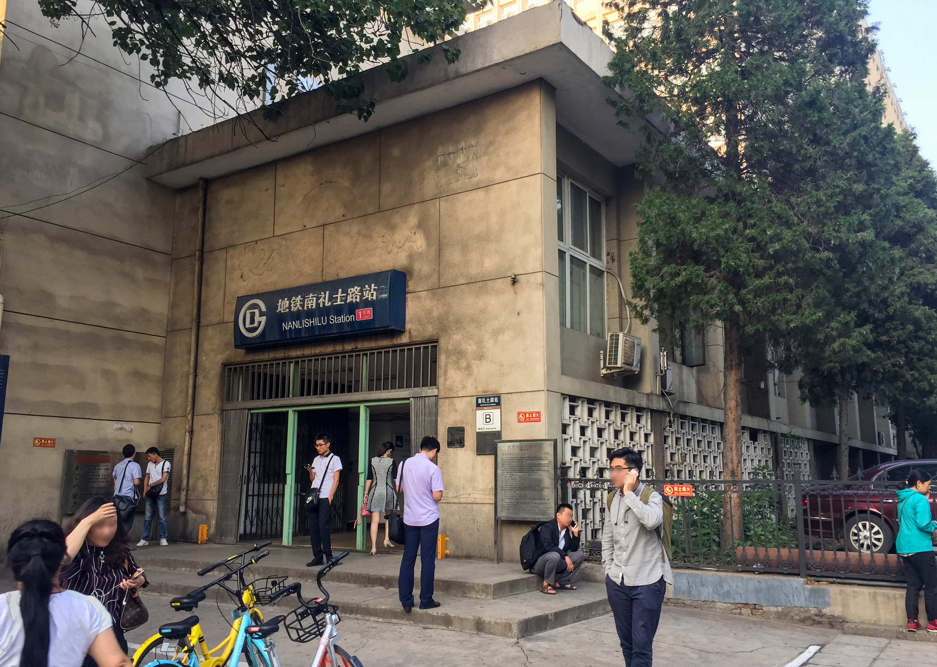 Completely different from other exits and other stations... Built-in or what?